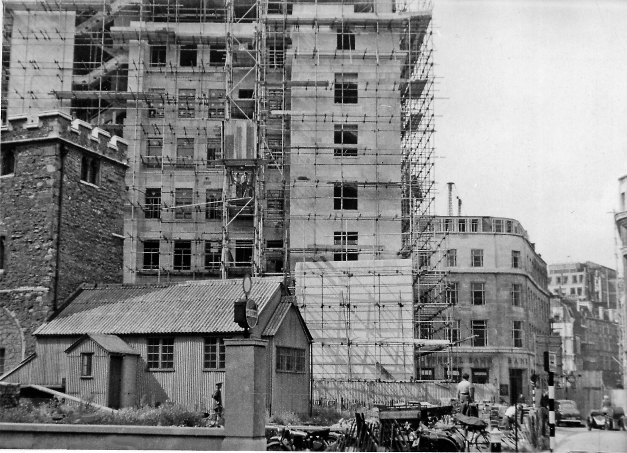 Seething Lane, with new office-blocks dwarfing St Olave's Church, 1955. View north near Crutched Friars - modern renovation of the blitzed City of London.